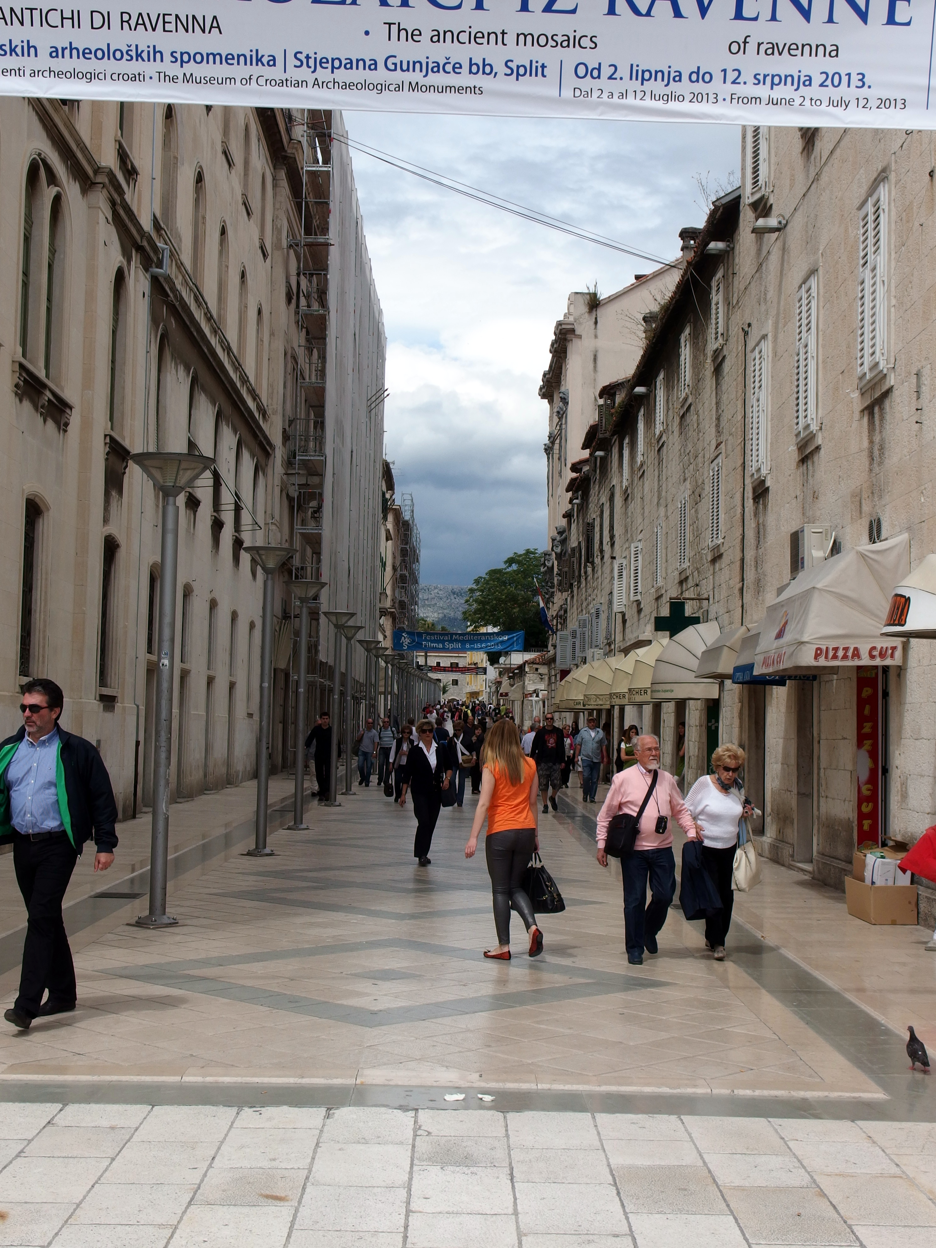 2013-06-03 in Split.